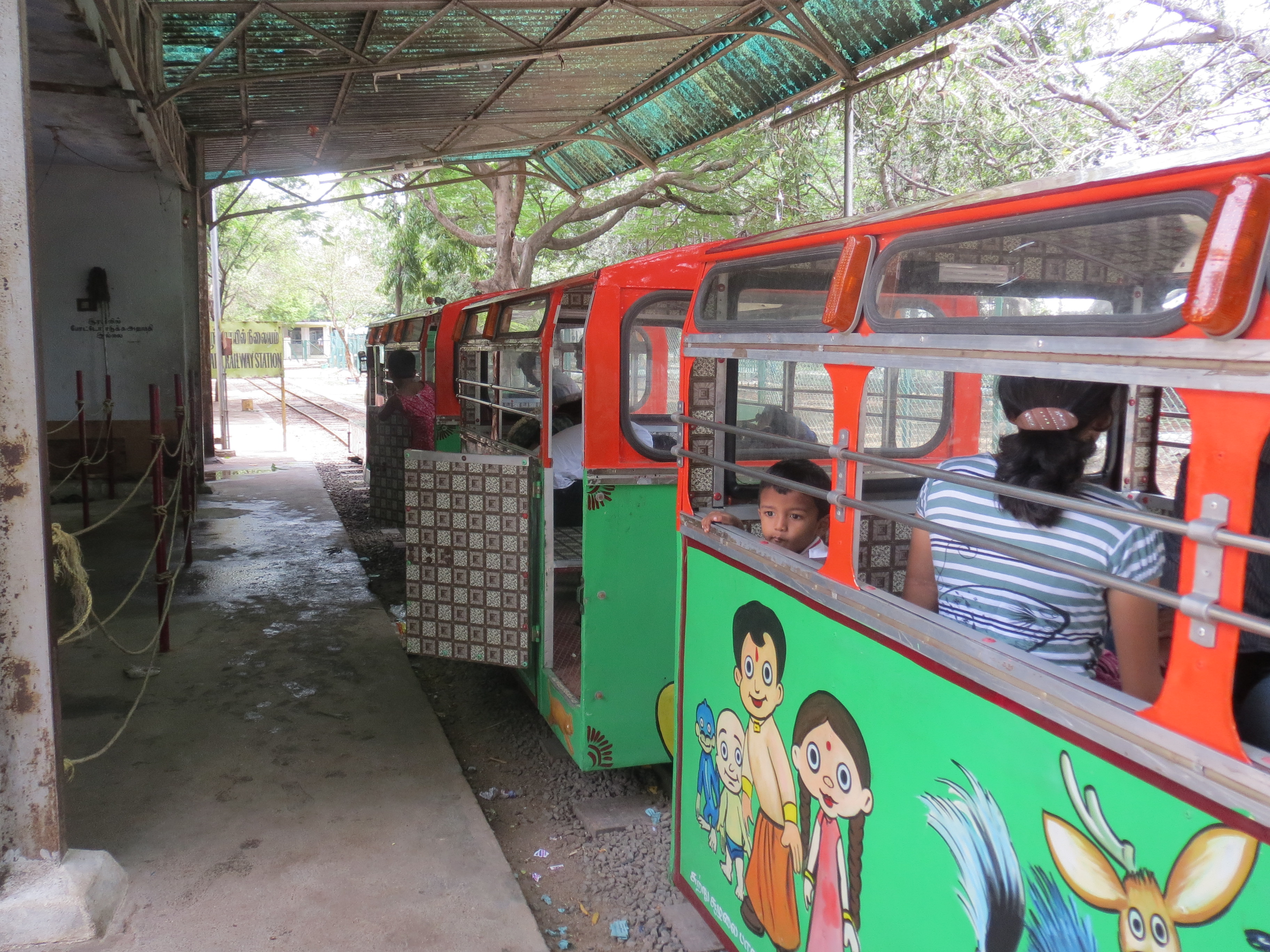 Voc park Play Train Carriages